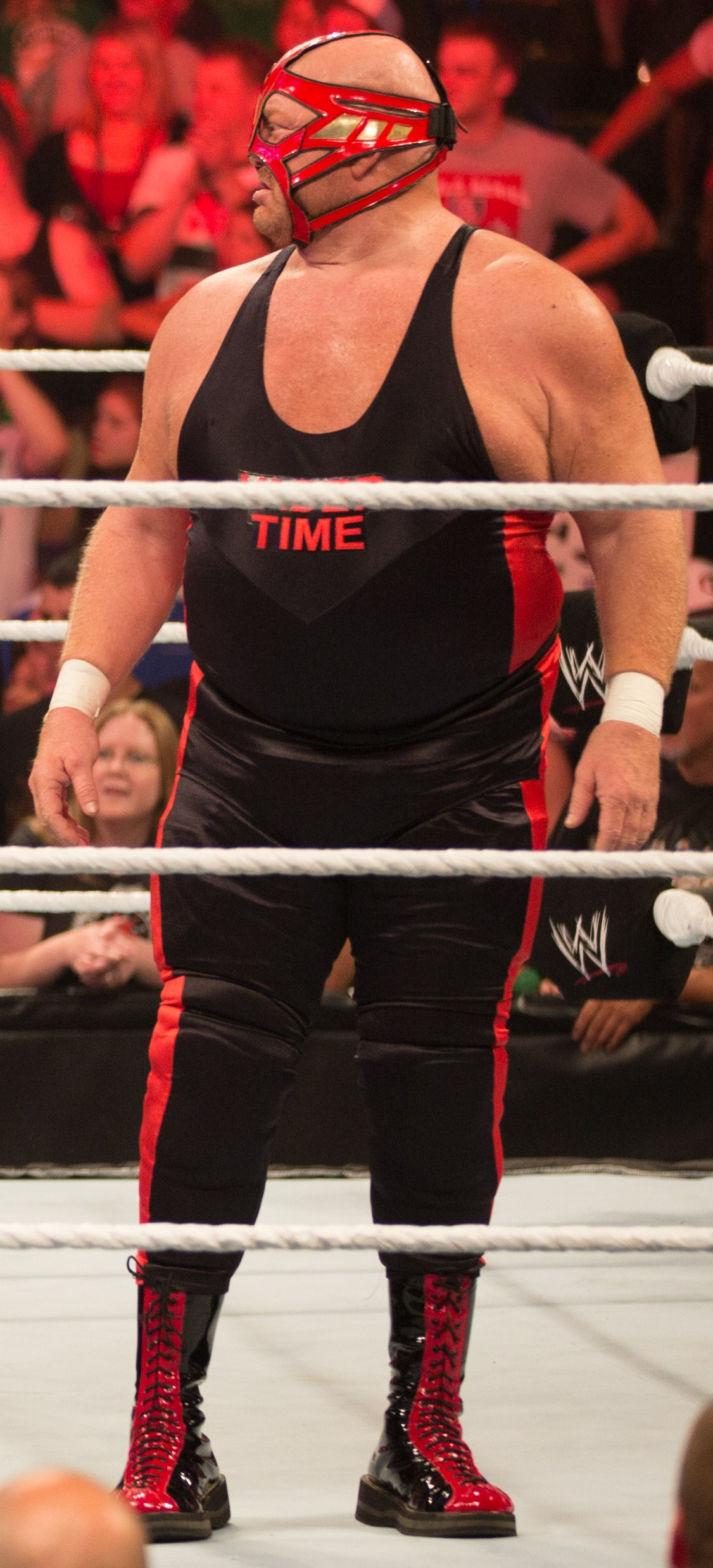 An image of the professional wrestler Big Van Vader.